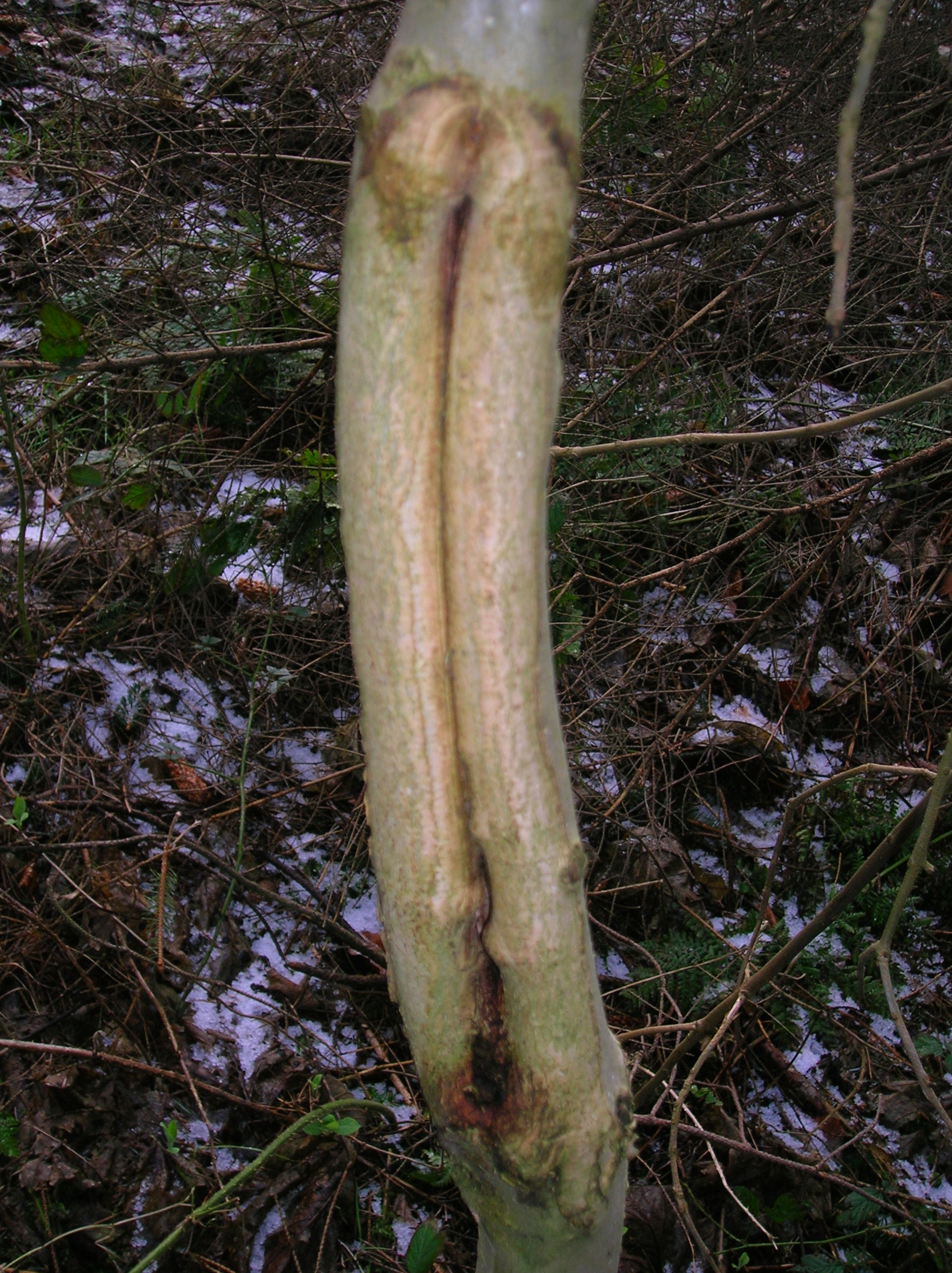 callus wound repair growth on an Ash tree.